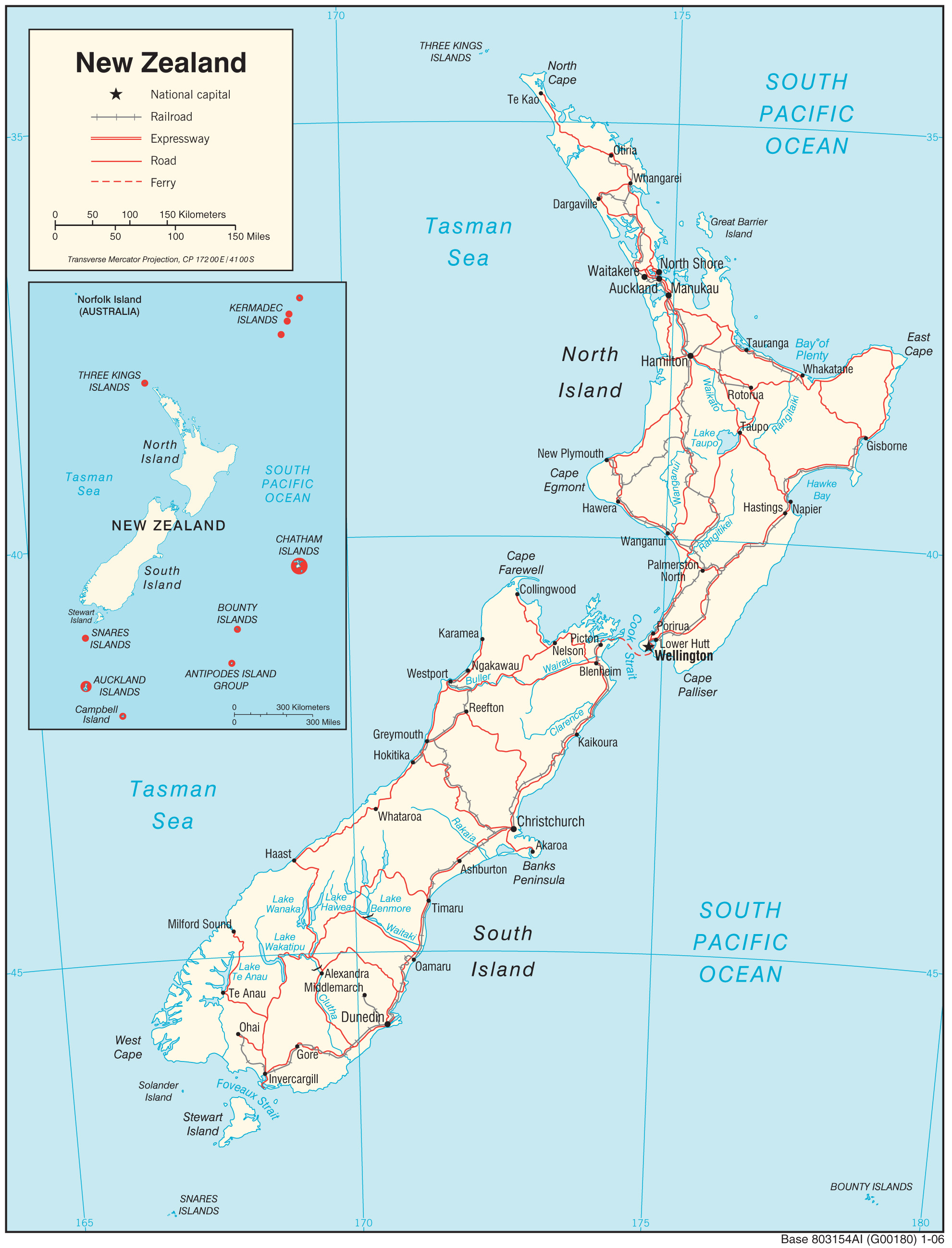 Transport system in New Zealand , 2006.